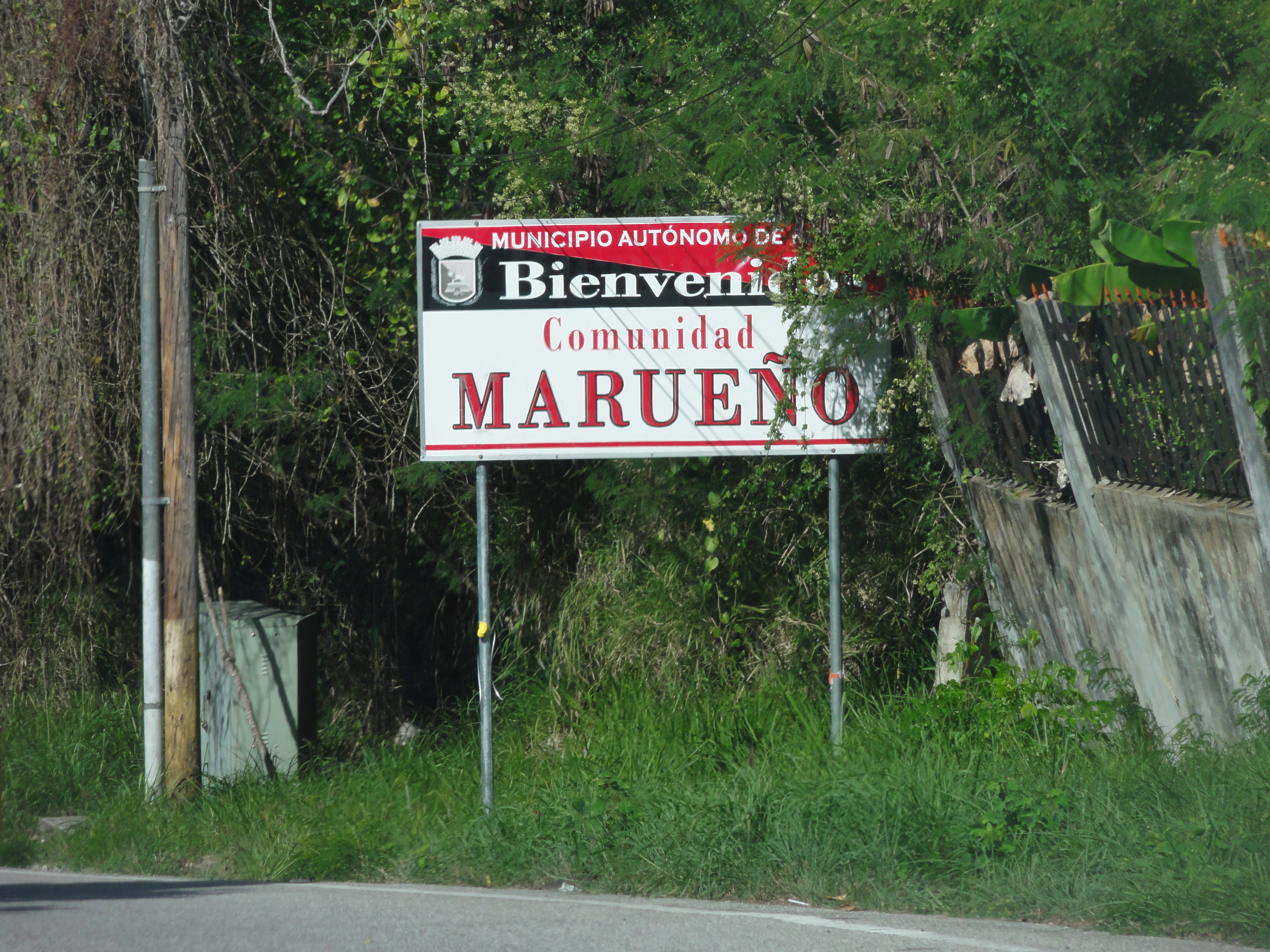 Letrero en la PR-501, marcando la entrada al Bo. Marueño, Ponce, PR (DSC07264)